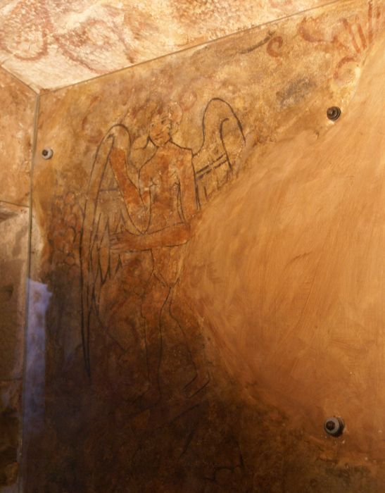 Interior of Huntingtower castle